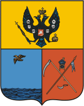 Coat of Arms of Voznesensk Mykolaiv Oblast Ukraine